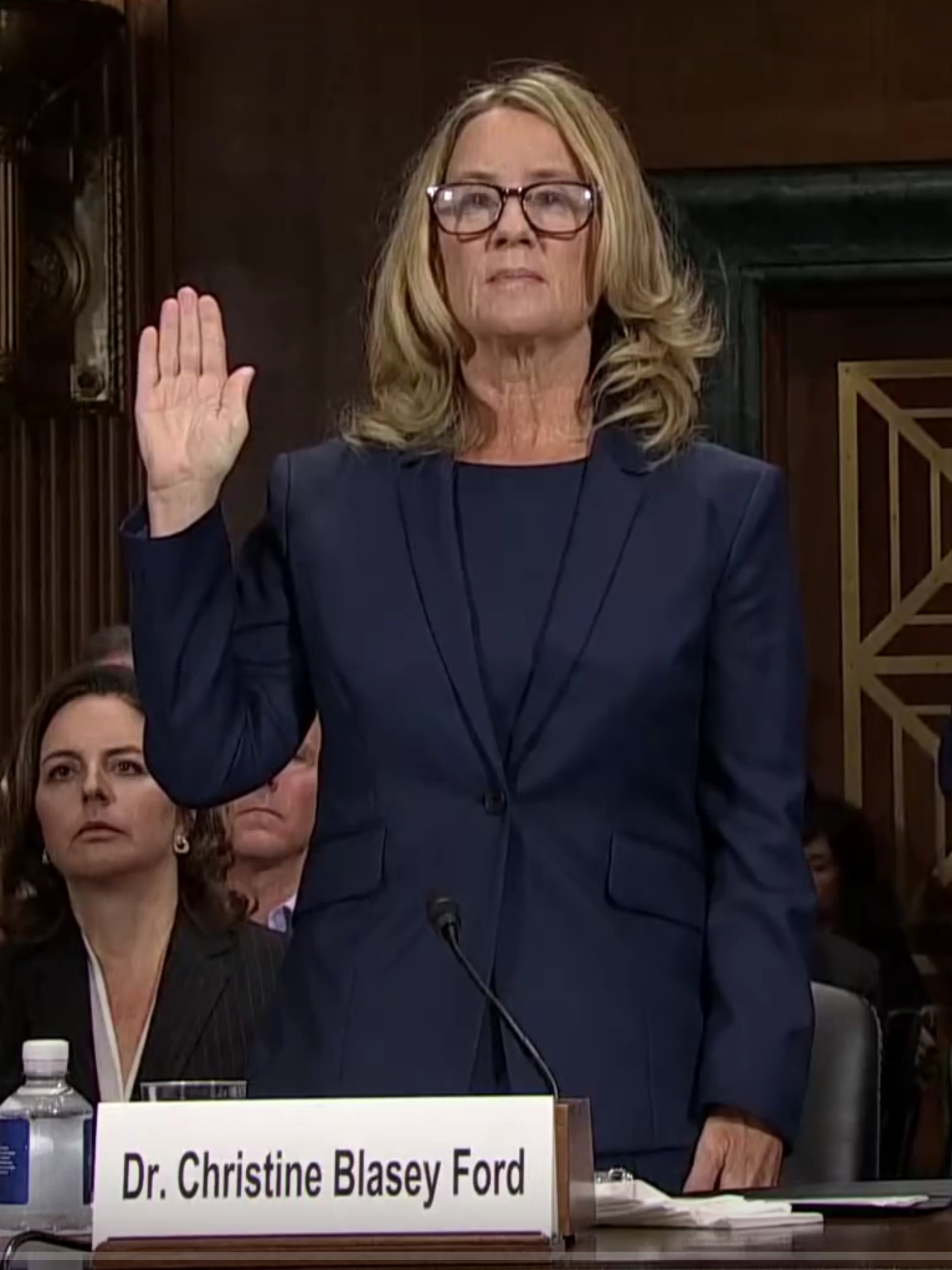 Palo Alto University professor Christine Blasey Ford rises to give an oath prior to her opening statement.